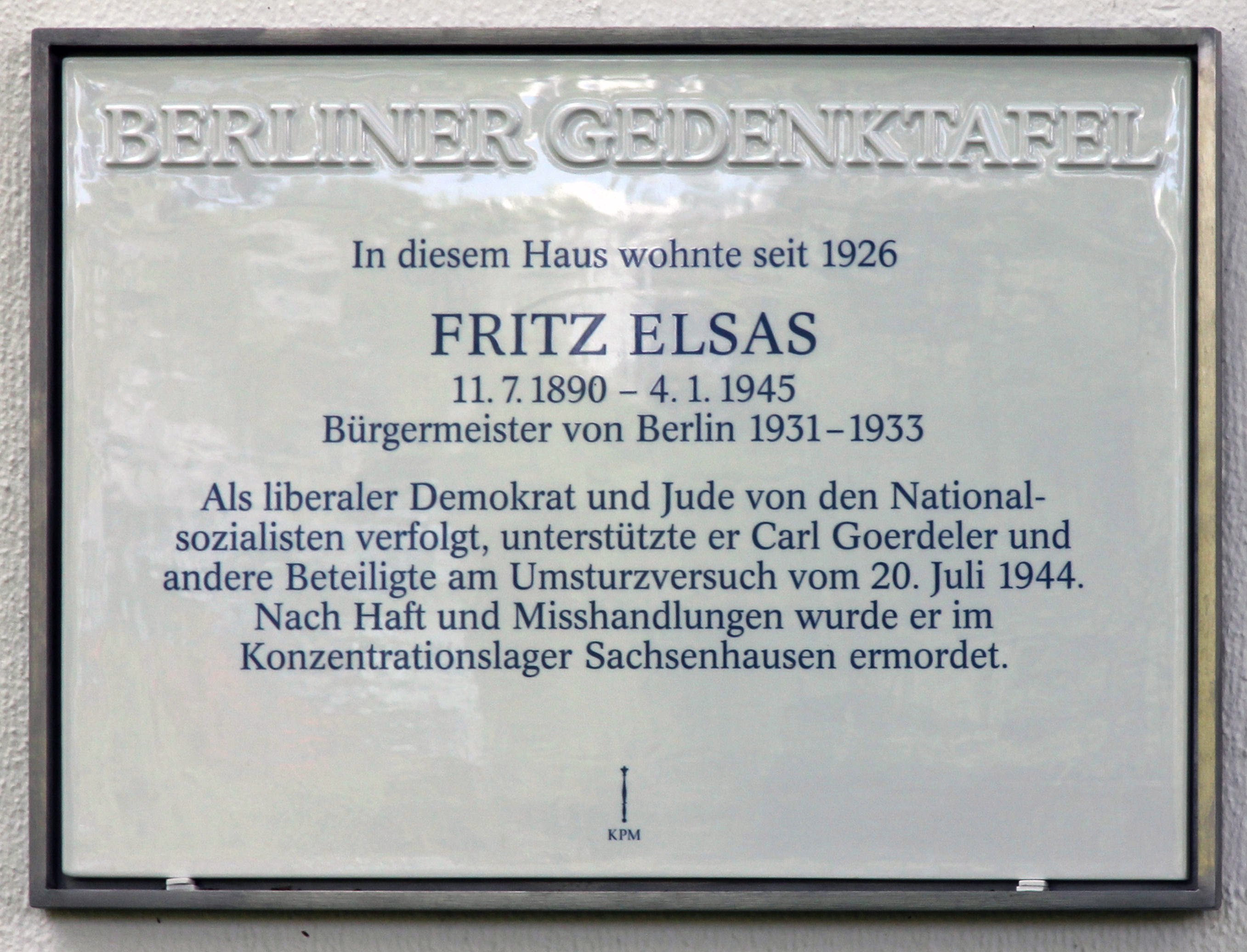 Berlin memorial plaque, Fritz Elsas, Patschkauer Weg 41, Berlin-Lichterfelde, Germany